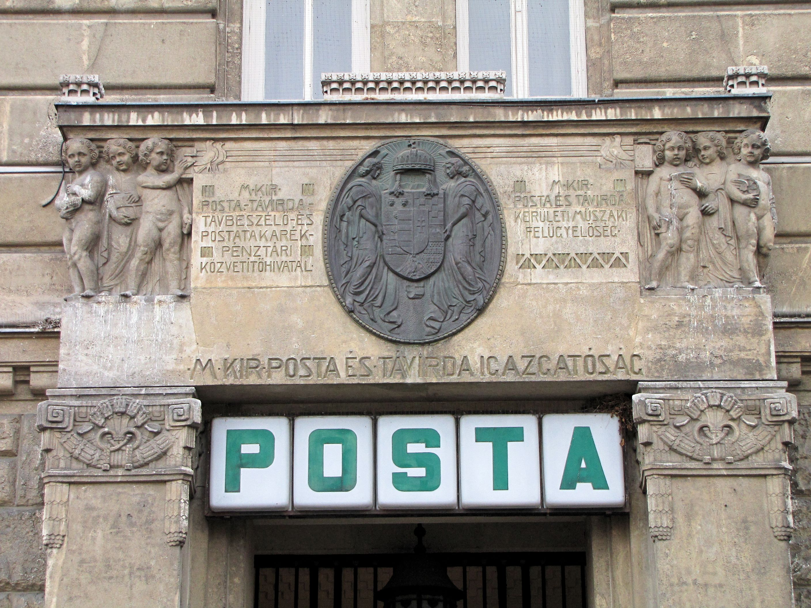 Sopron, Main Post office. Architect: Ambrus Orth & Emil Somló, 1913